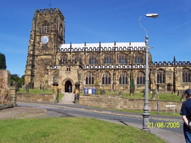 Thirsk Church. St Marys